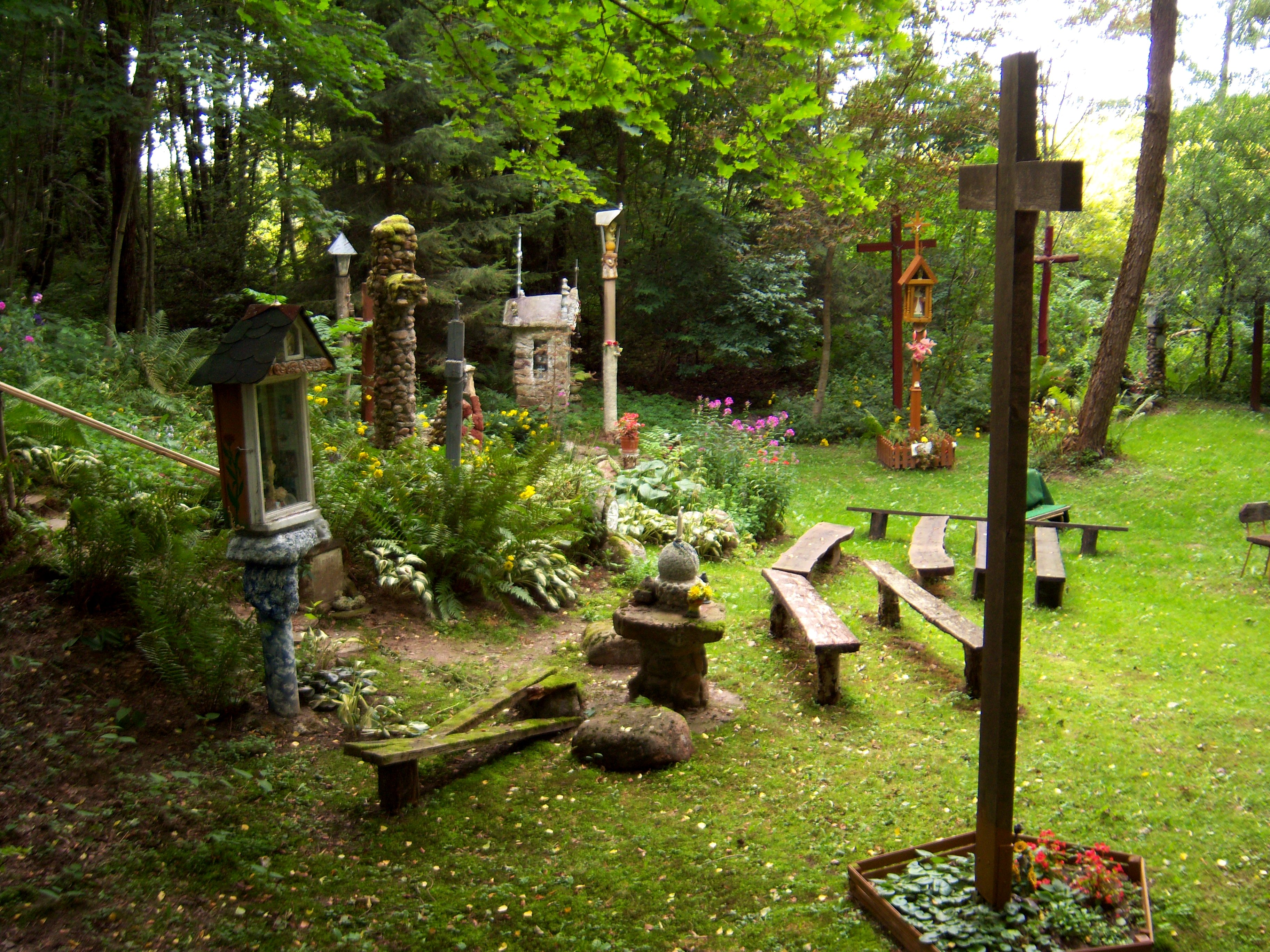 Lourdes in Ablinga, Klaipėda District. Lithuania